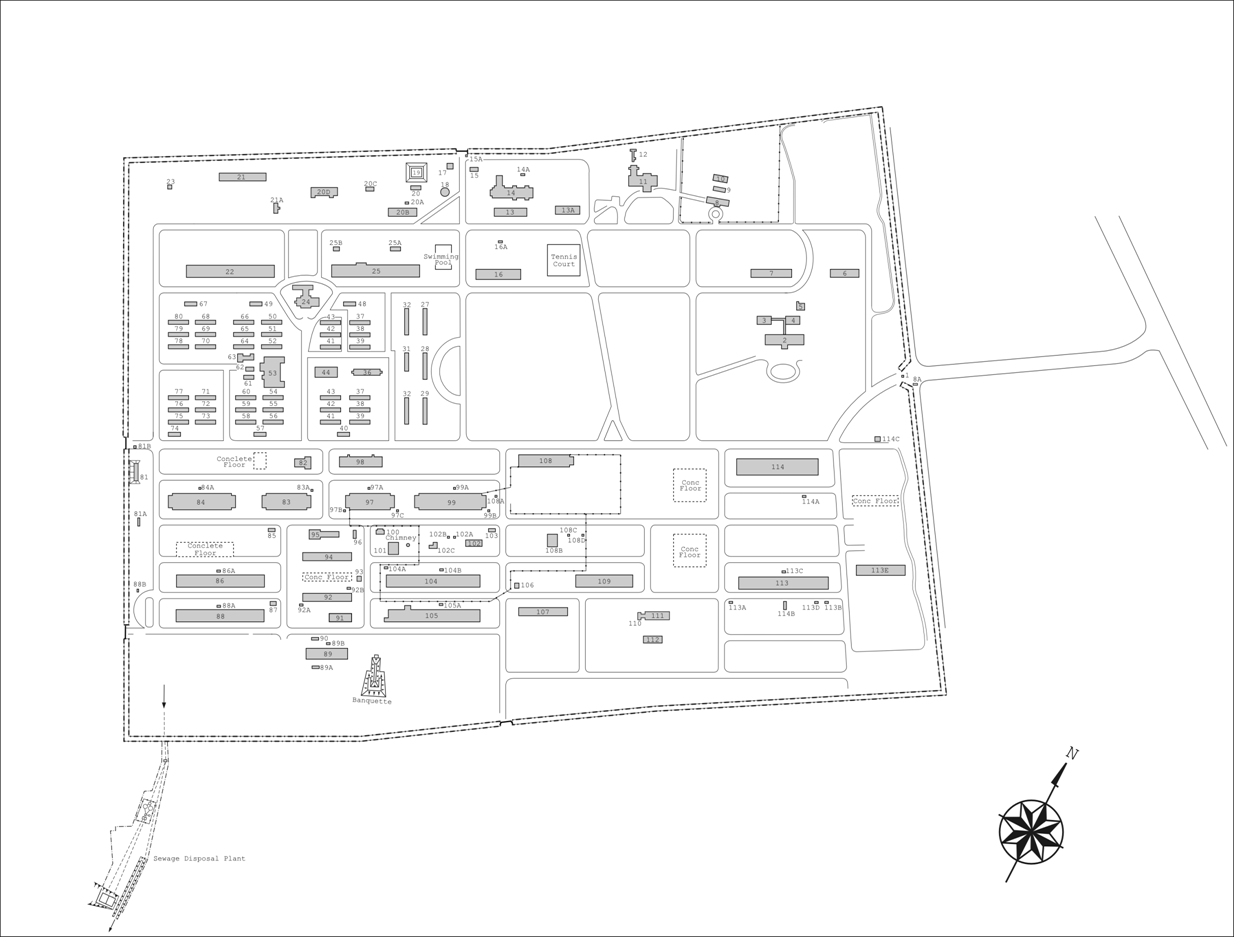 Cp Fuchinobe, Sagamihara, Japan (c. 1952)